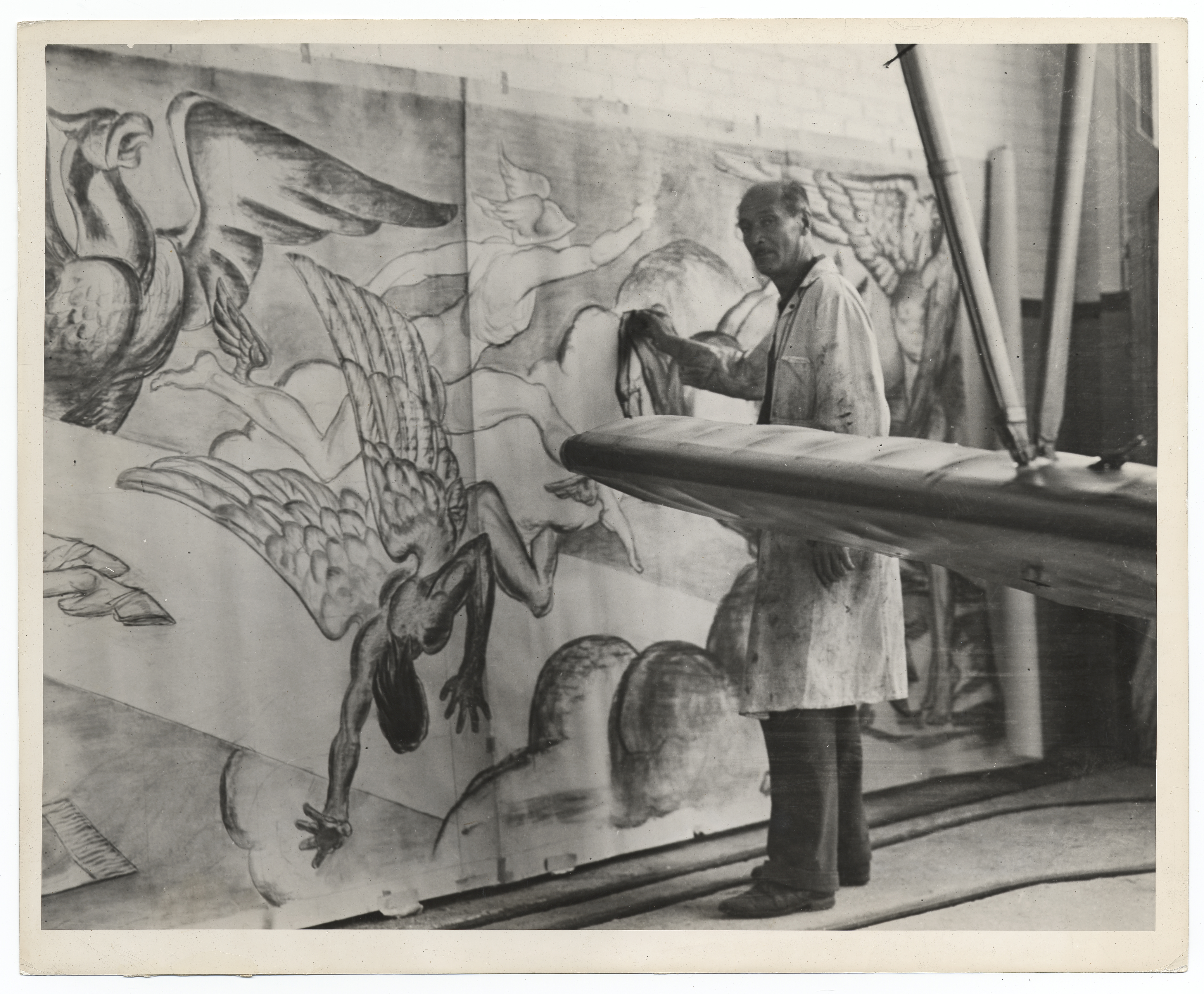 Henkel at work on charcoal sketch for a mural. Identification on verso, left (handwritten and stamped): Title: "Aviation"; Artist: August Henkel and Eugene Chadorow; Medium: Charcoal Sketch Identification on verso, right (handwritten and typed): Federal Art Project W.P.A; Photographic Division; 235 East 42nd Street; New York City Location: Floyd Bennet Airport; Negative No.: SF 115.